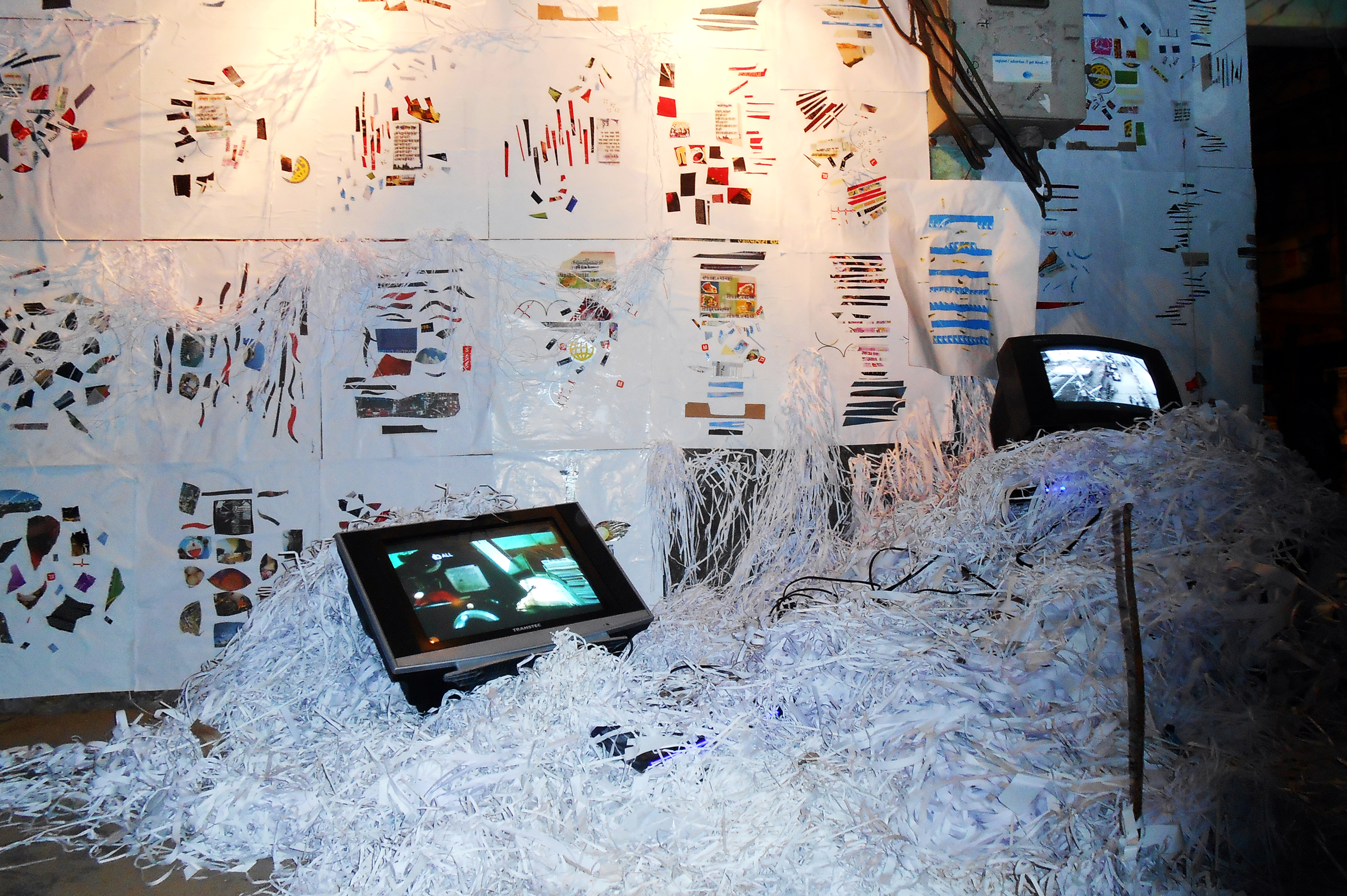 Wastage abstract a street artwork by Palash Bhattacharjee disclosed on an exhibition titled "Cheragi Art Show 2"- a site specific art exhibition at Cheragi Pahar, Chittagong.